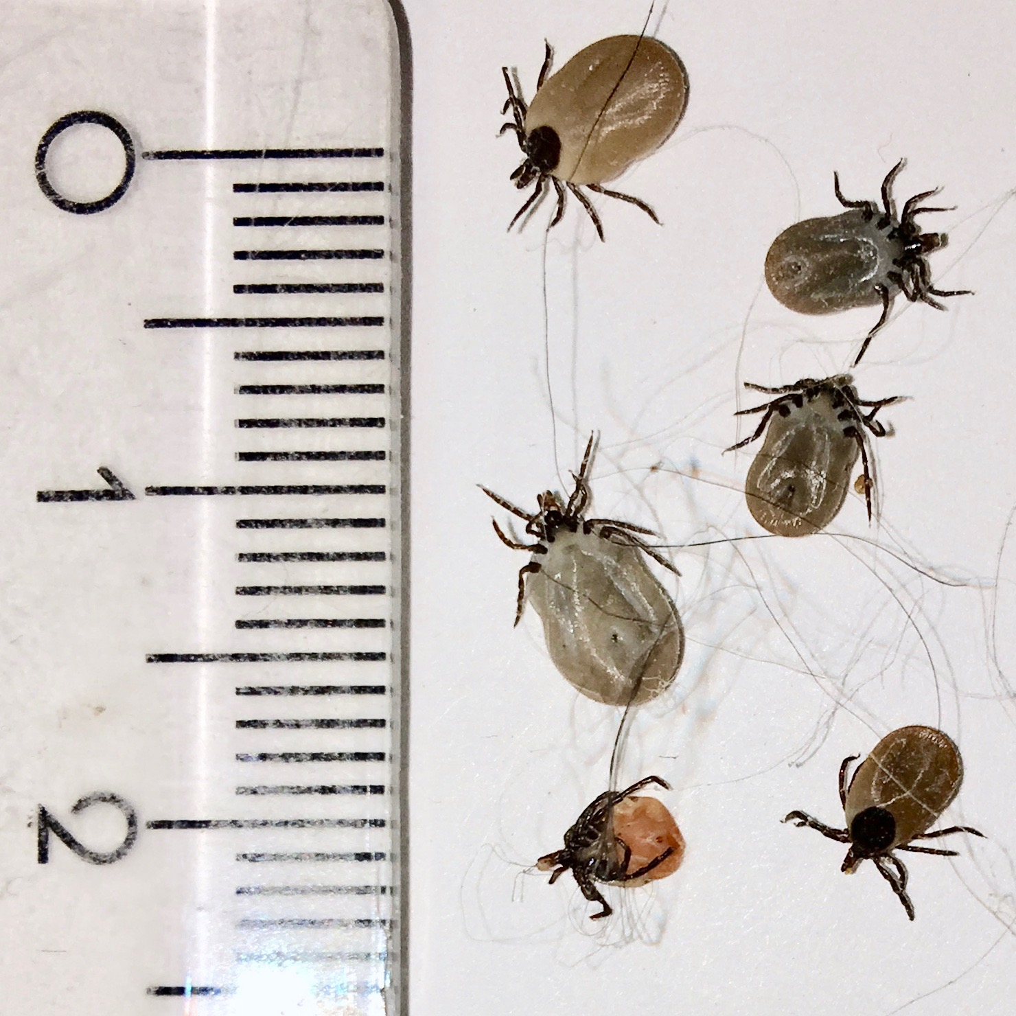 Ticks picked from the skin of two poodles in Tjøme, Norway in August 2017. Centimeter scale.